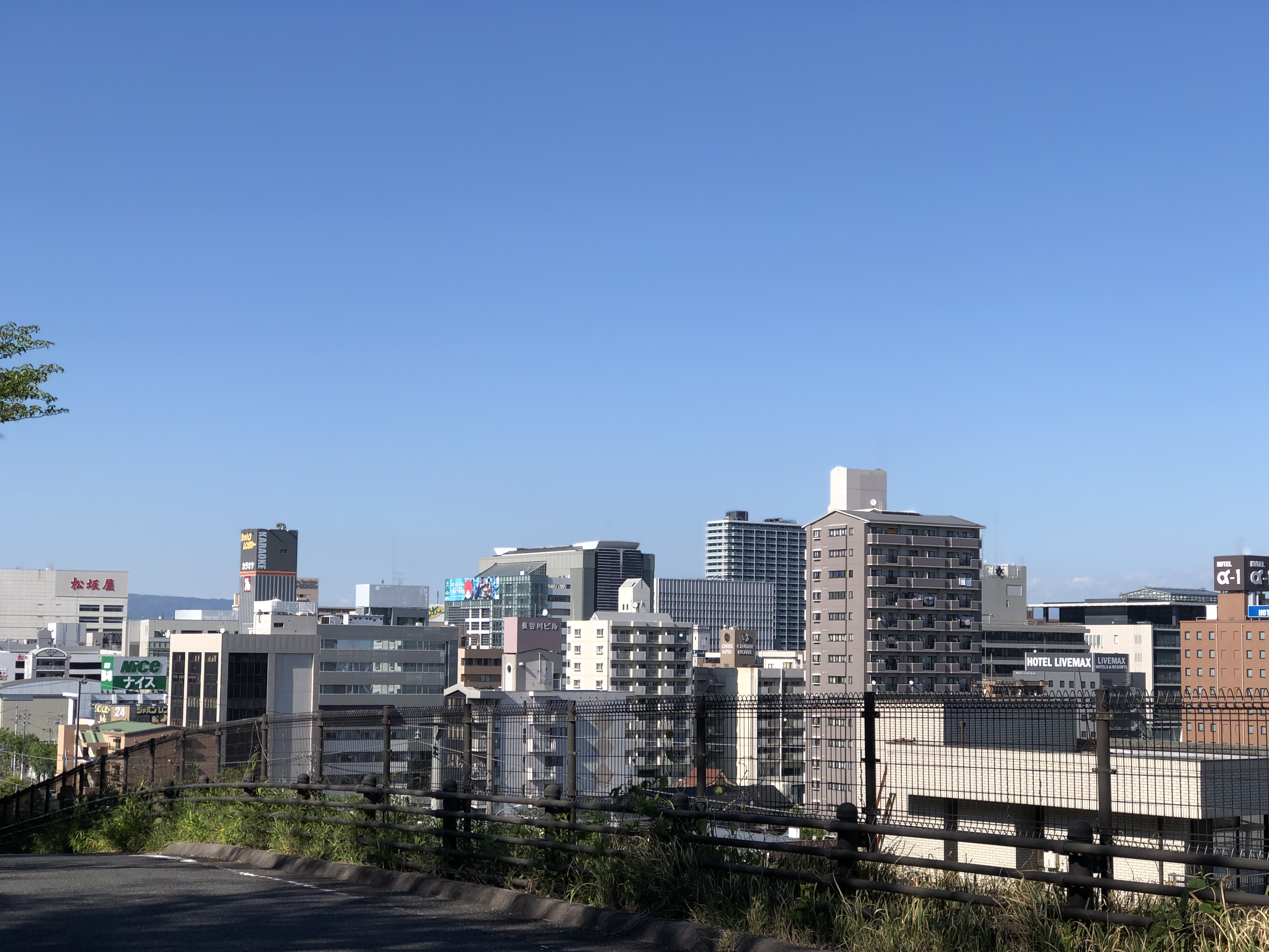 Toyota City Skyline003